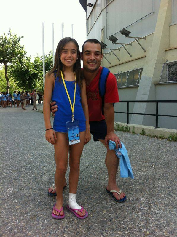 Marina with one of the best (Gervasio Deferr)